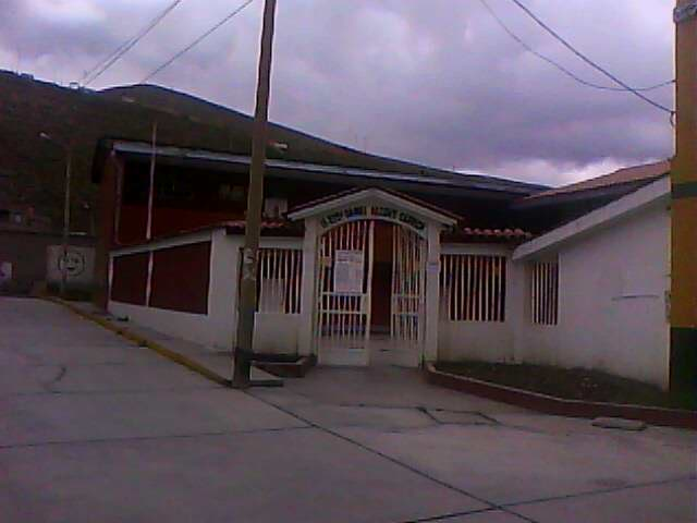 I. E DANIEL ALCIDES CARRION